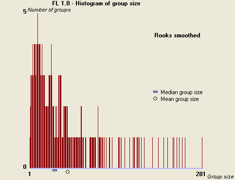 Flocker 1.1. figure. The frequency distribution rook colony sizes - smoothed. Data from Debout, G. 2003. Le corbeau freux (Corvus frugilegus) nicheur en Normandie: recensement 1999 & 2000. Cormoran, 13, 115-121.